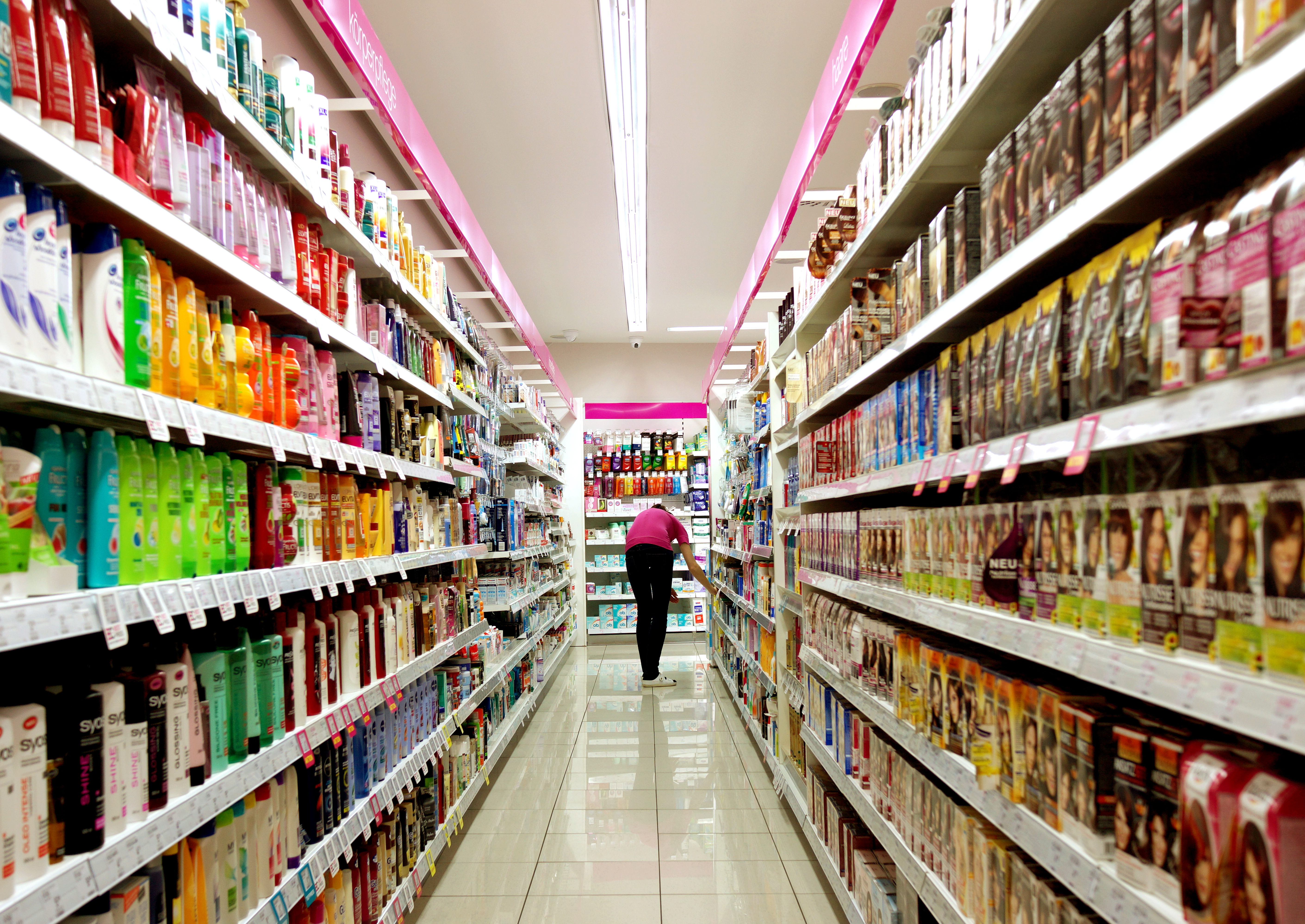 A supermarket where you see shelves full of goods, and an employee.